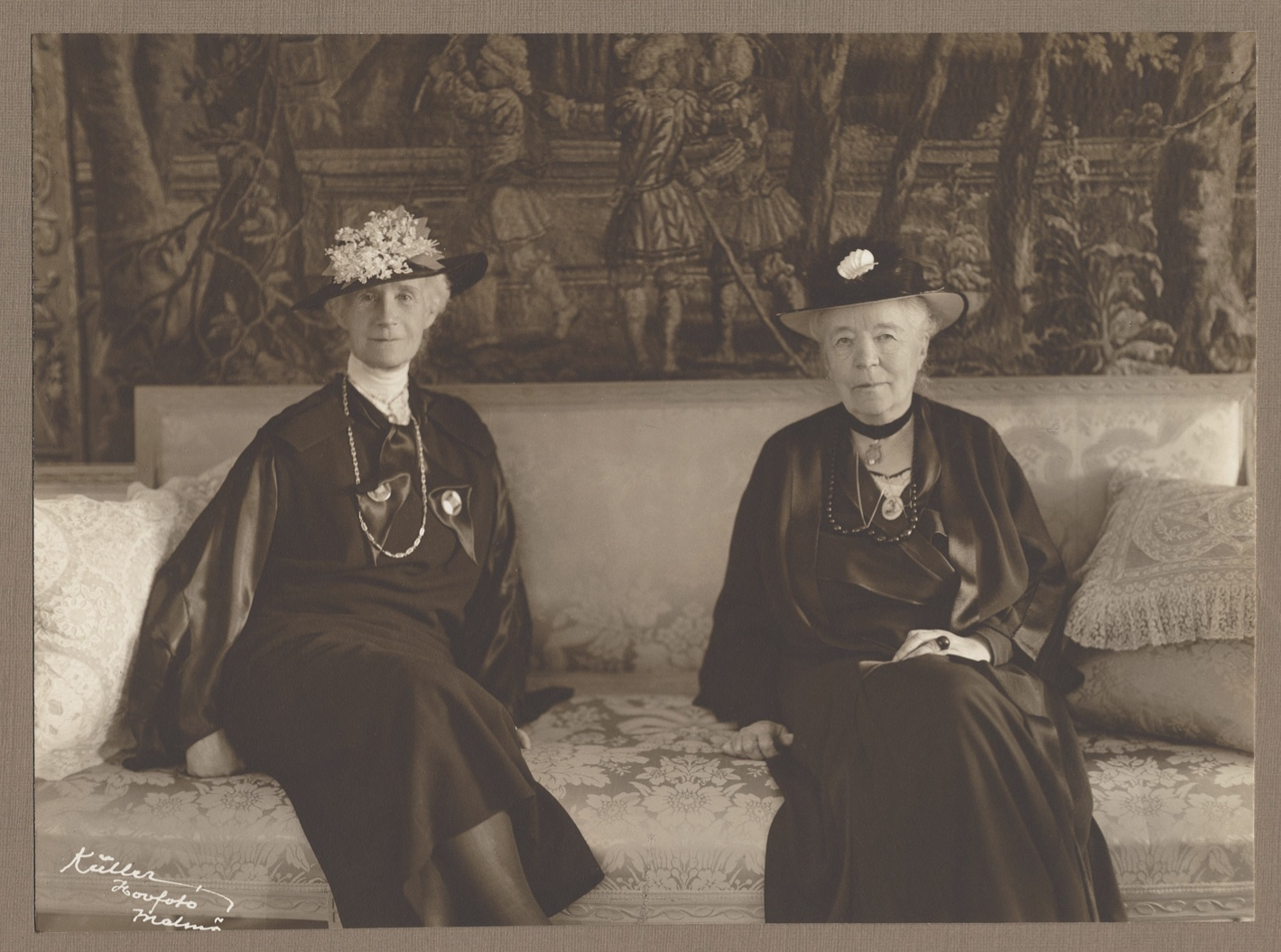 Selma Lagerlöf and Henriette Coyet